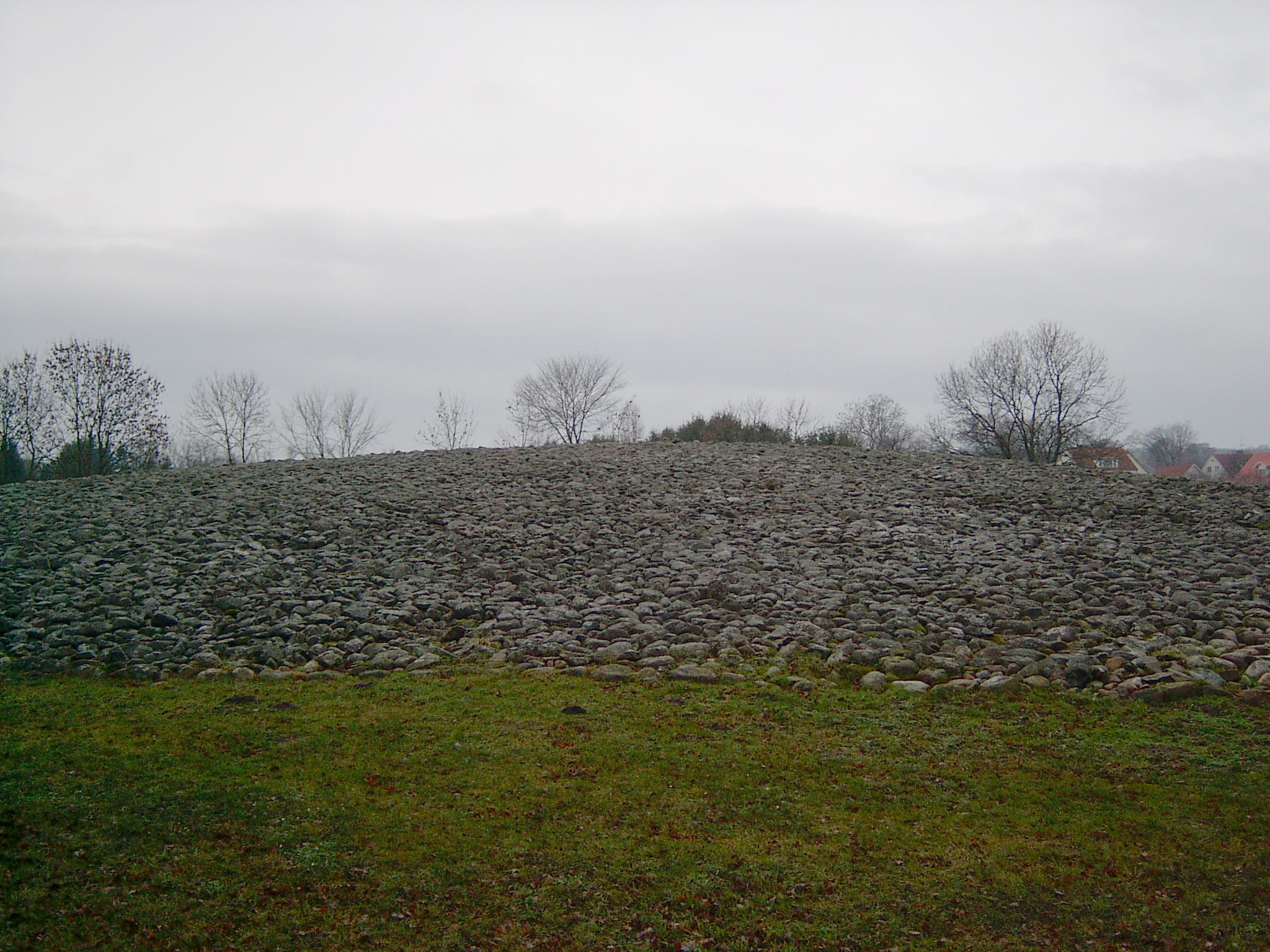 Photo of a grave of an old bronze age king in Kivik, Sweden, see The King's Grave.